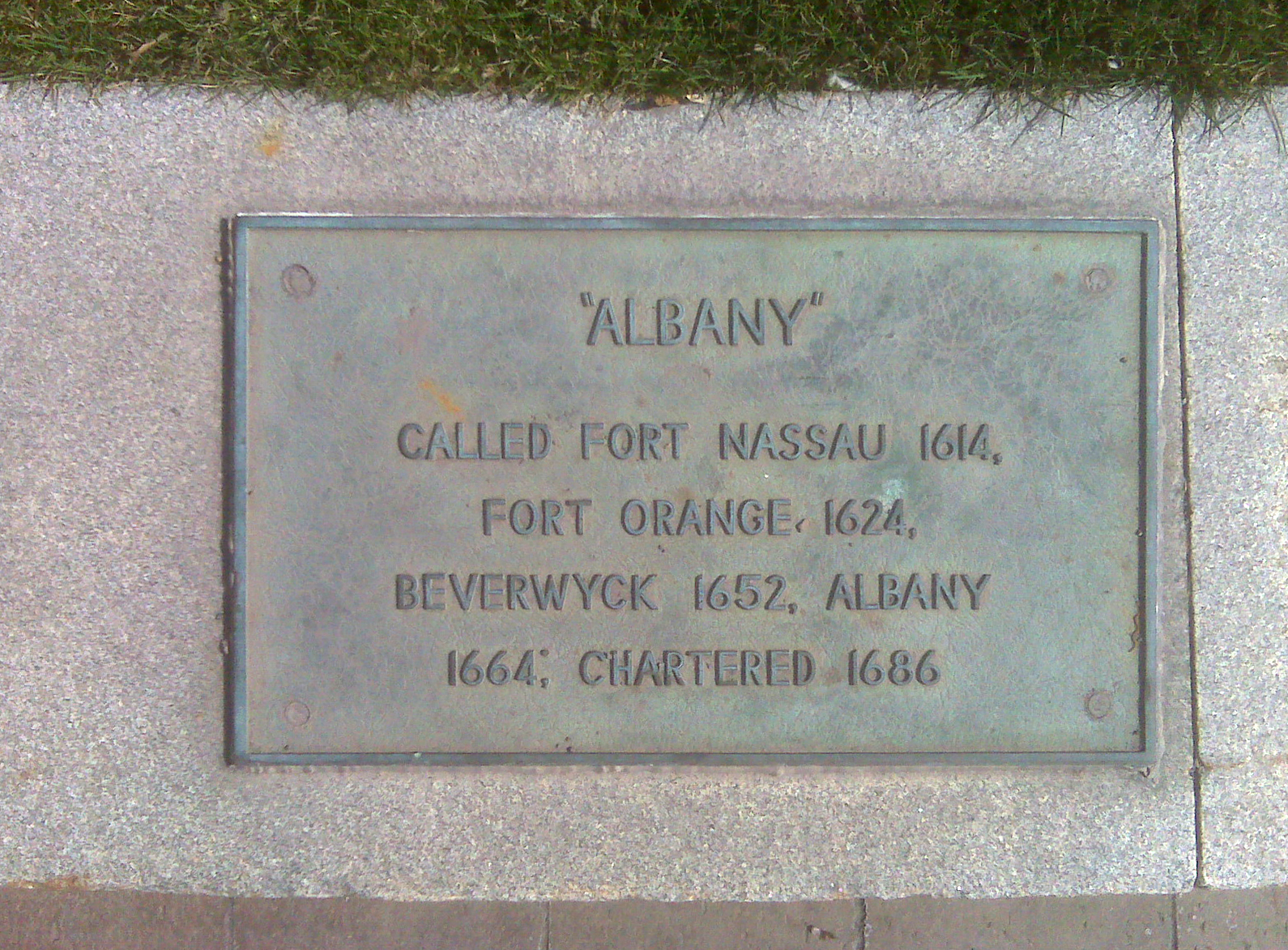 "Albany" Called Fort Nassau 1614, Fort Orange 1624, Beverwyck 1652, Albany 1664; Chartered 1686